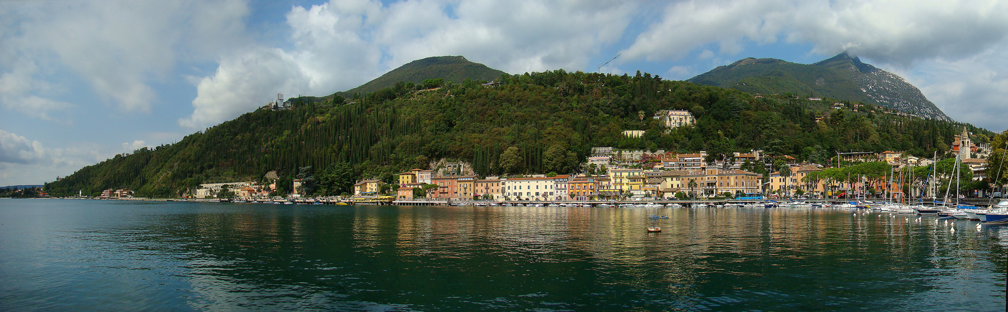 Toscolano-Maderno, Lake Garda, Lombardy, Italy.